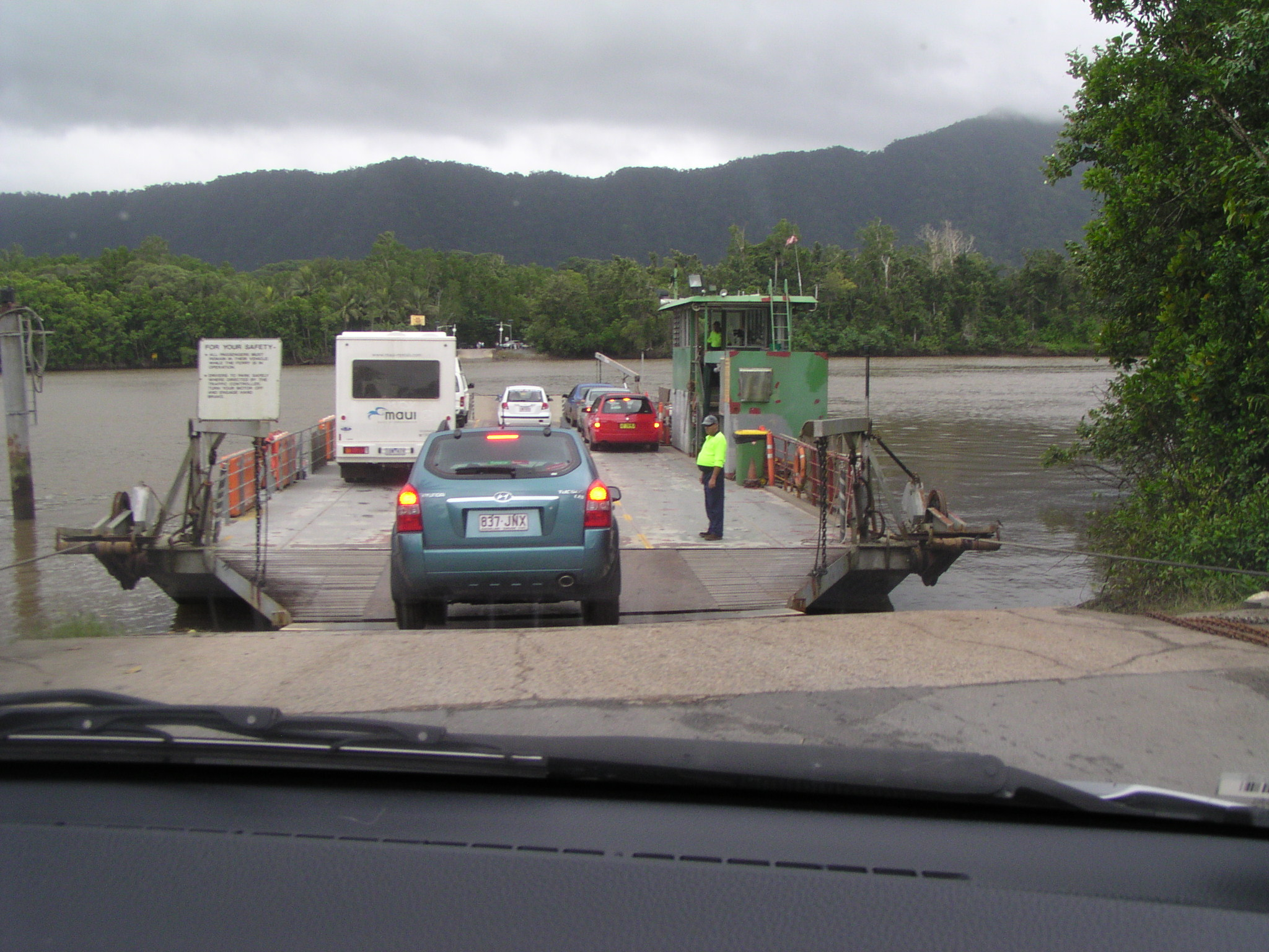 Vehicles boarding the ferry across the Daintree River